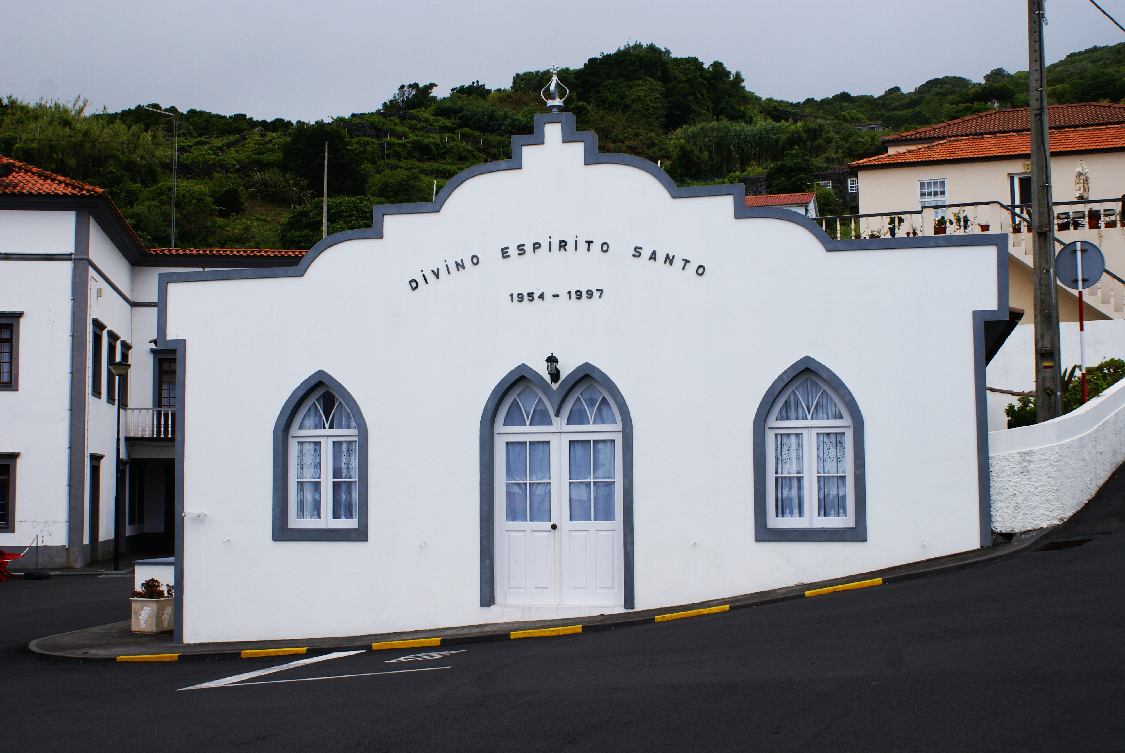 Império do Espírito Santo da calheta de Nesquim, Lages do Pico, ilha do Pico, Açores, Portugal